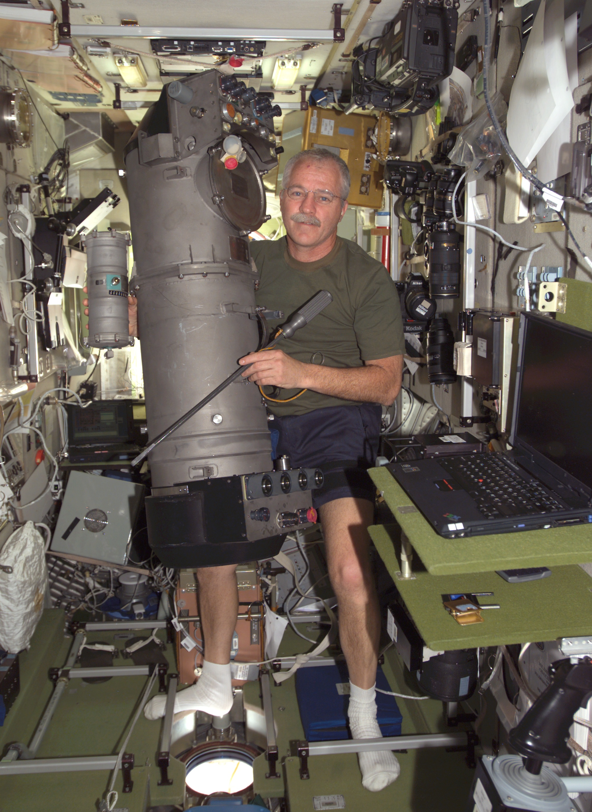 Astronaut John L. Phillips, Expedition 11 NASA ISS science officer and flight engineer, working on the Elektron oxygen-generation system in the Zvezda Service Module that has worked intermittently aboard the International Space Station (5 May 2005)